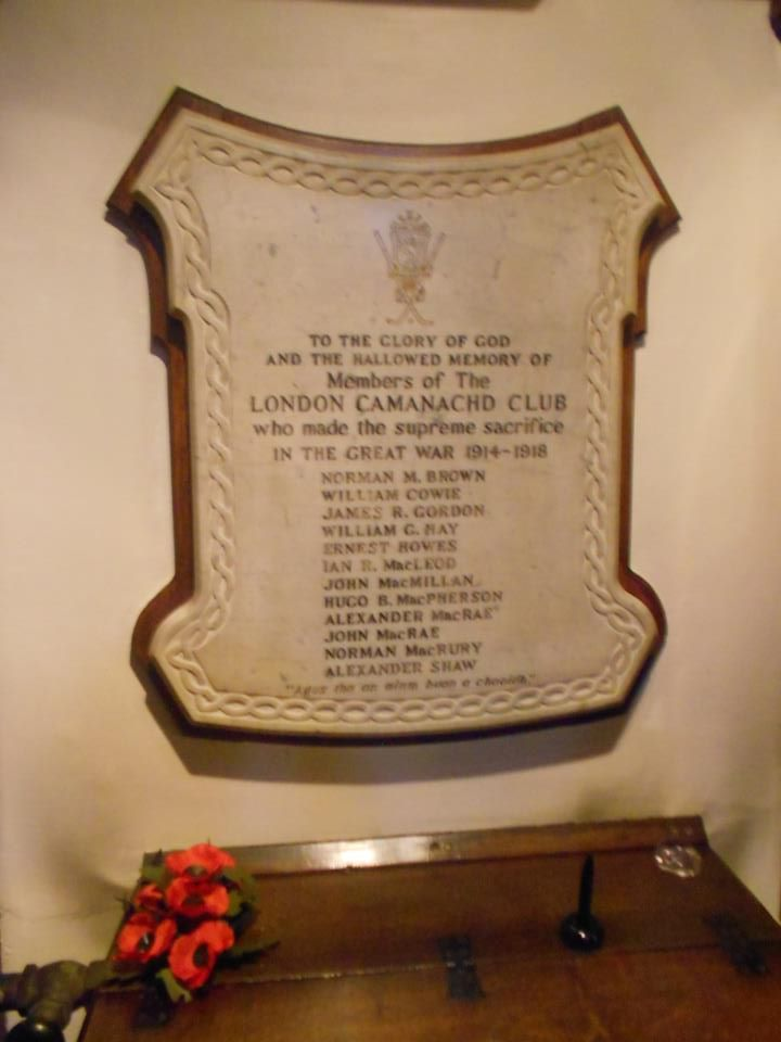 The names of the London Camanachd players that fell in the First World War:- Norman Brown William Cowie James Gordon William Hay Ernest Howes Ian MacLeod John MacMillan Hugo MacPherson Alexander MacRae John MacRae Norman MacRury Alexander Shaw